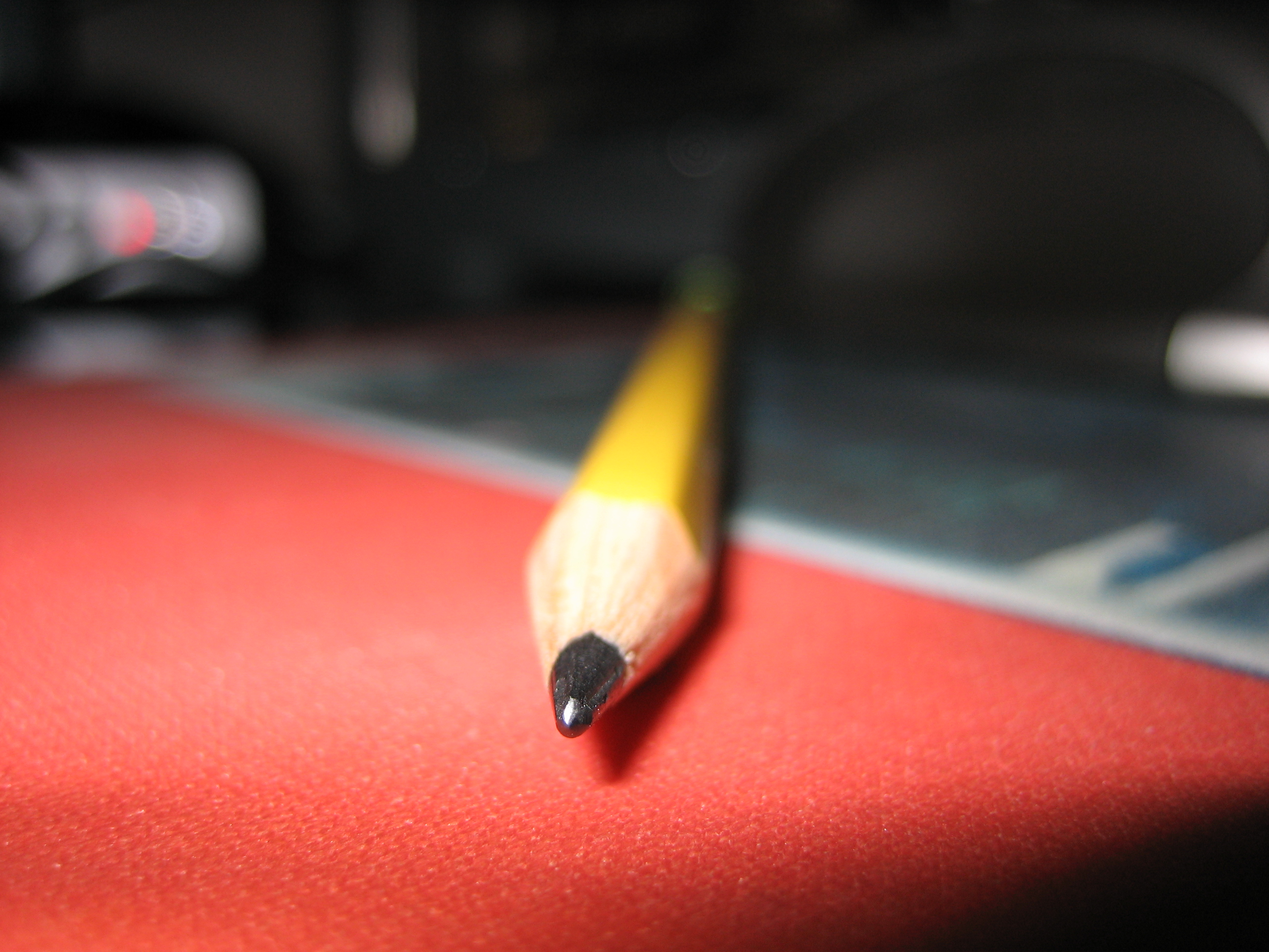 A sharpened pencil in extreme perspective.